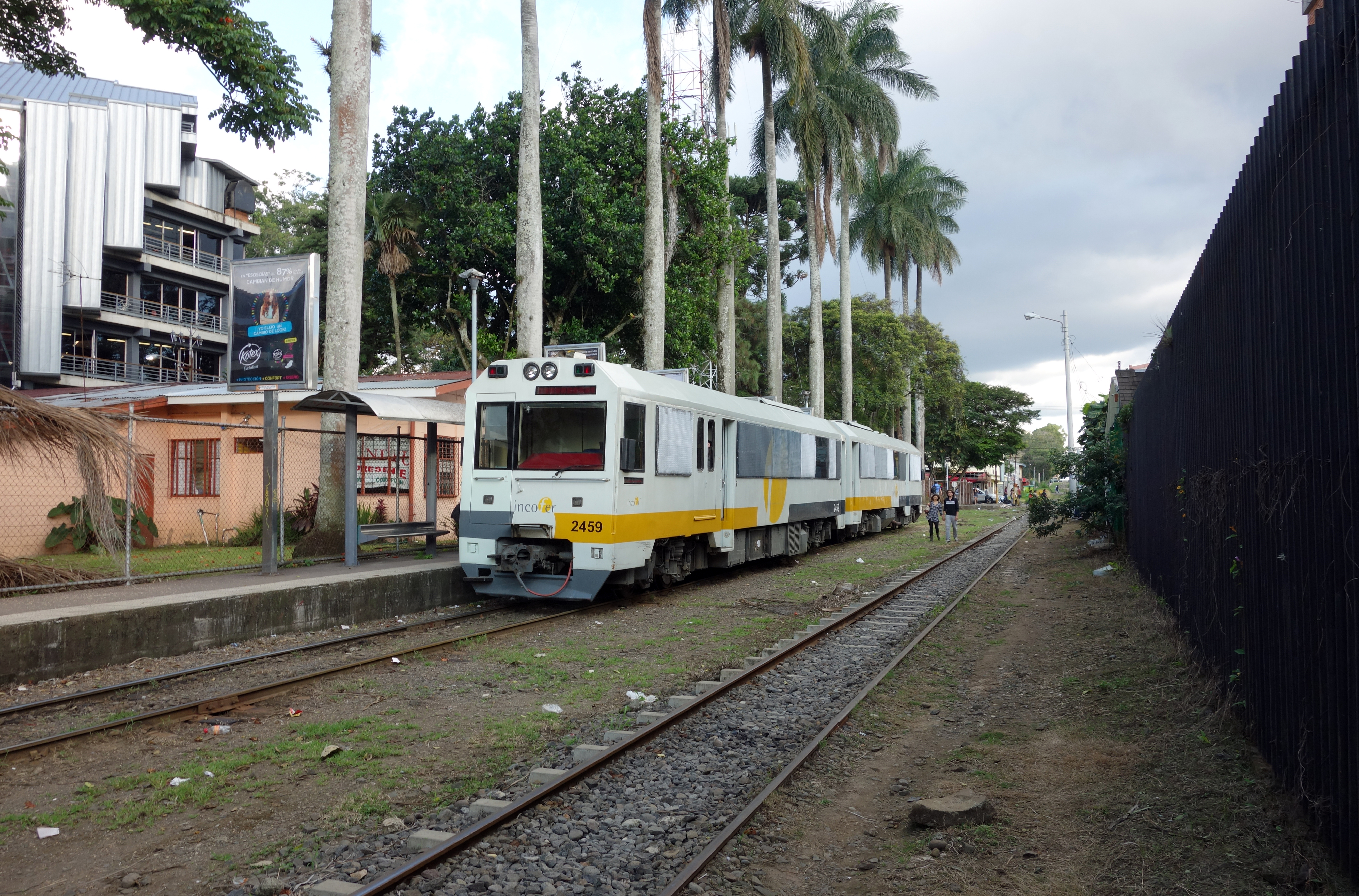 Costa Rican urban train at Universidad de Costa Rica station in San Pedro